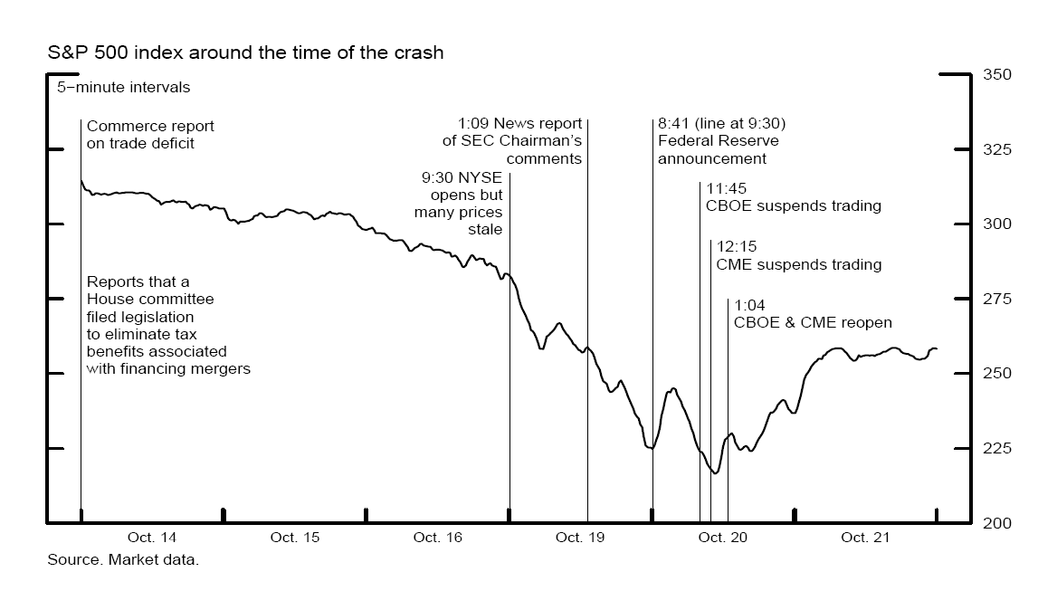 S&P 500 index around the time of the October 1987 stock market crash